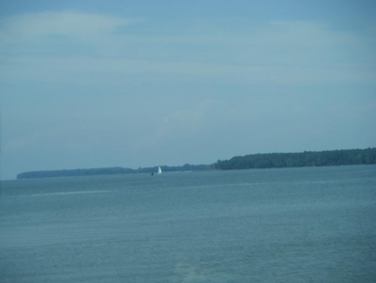 The Miles River as viewed from the Maryland Route 33 bridge over Oak Creek in Newcomb, Maryland